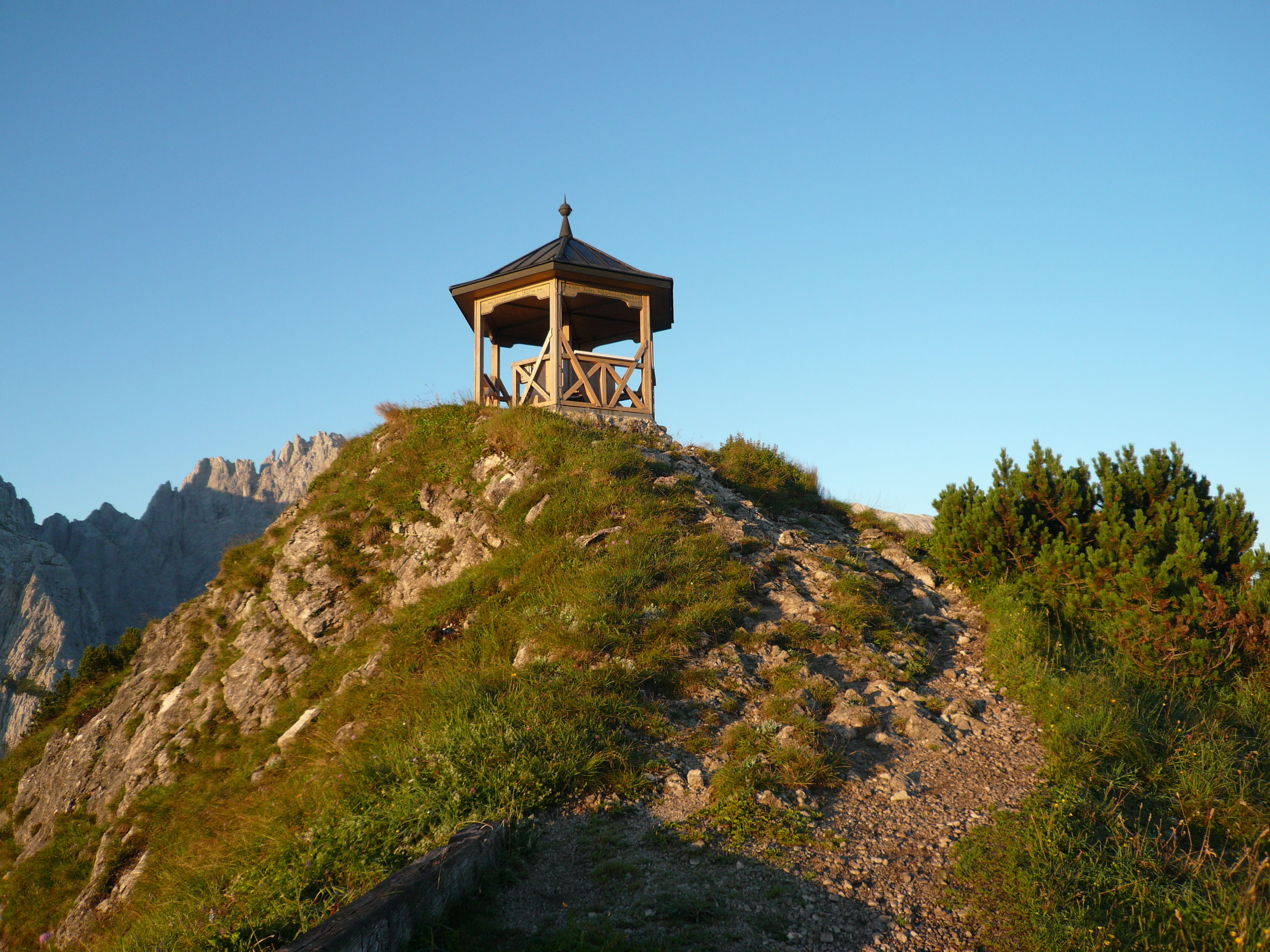 On the summit of Stripsenkopf, Austria